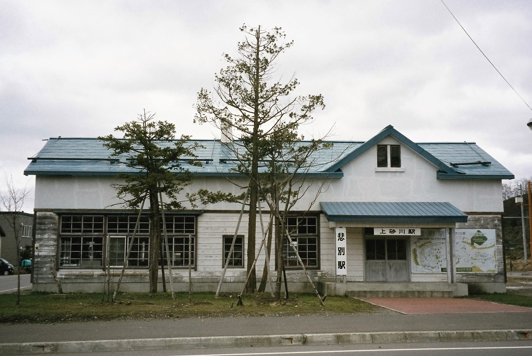 Kamisunagawa Station in Hokkaido, Japan